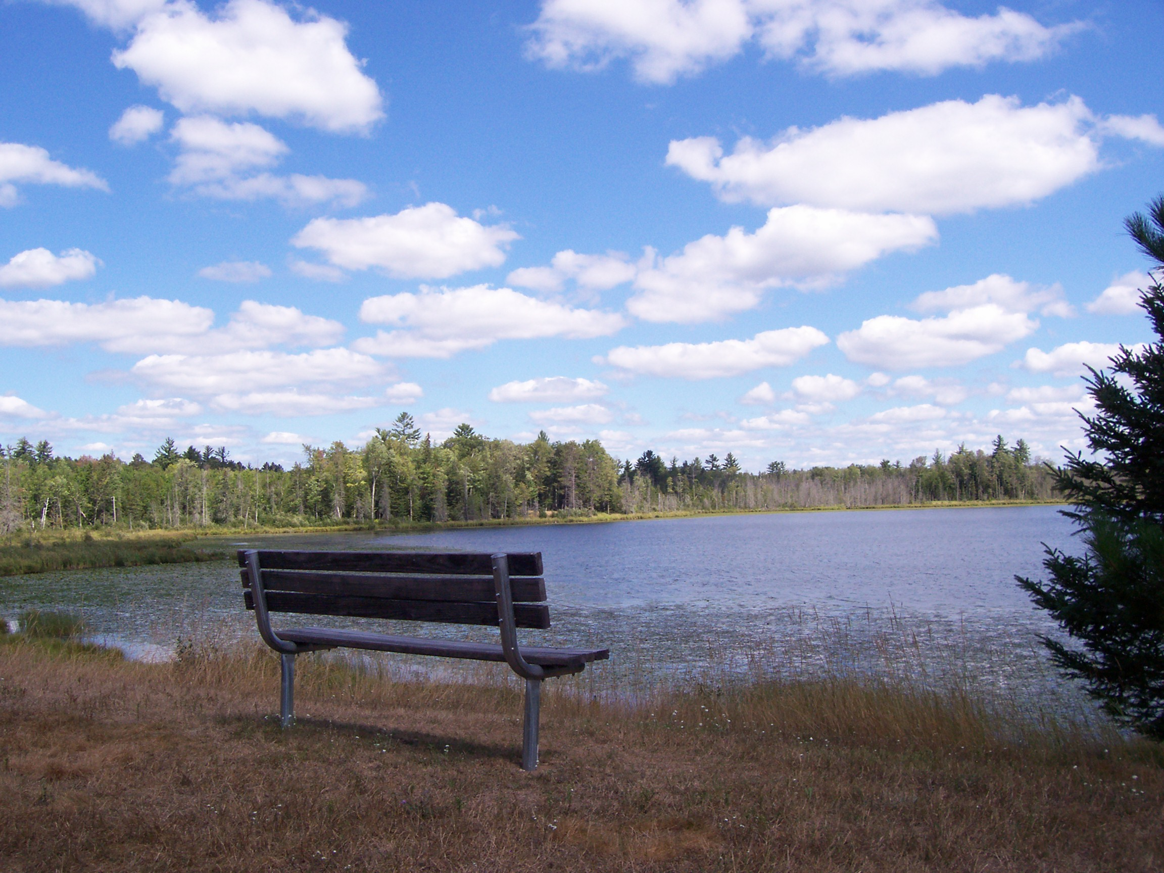 Looking north at Woods Lake at Governor Thompson State Park.